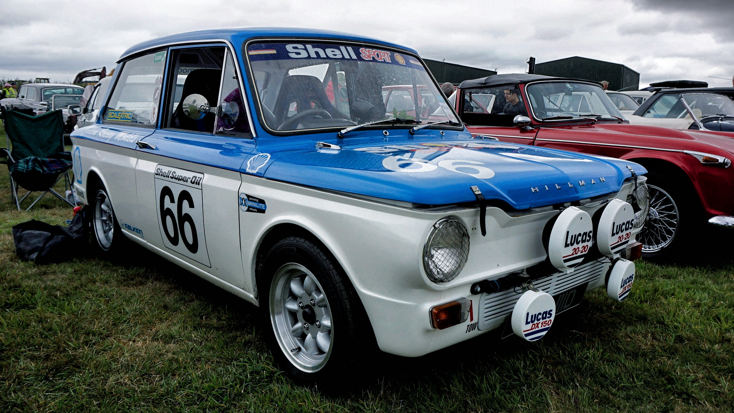 A lovely day out which unfortunately is always subject to the vagaries of the British weather - most of the vintage aircraft flying was cancelled due to strong sidewinds and rain. A fine array of vintage and veteran cars was on show. I was really there for the flying so wimped out after an hour or so and went home. Hillman Imp rally car